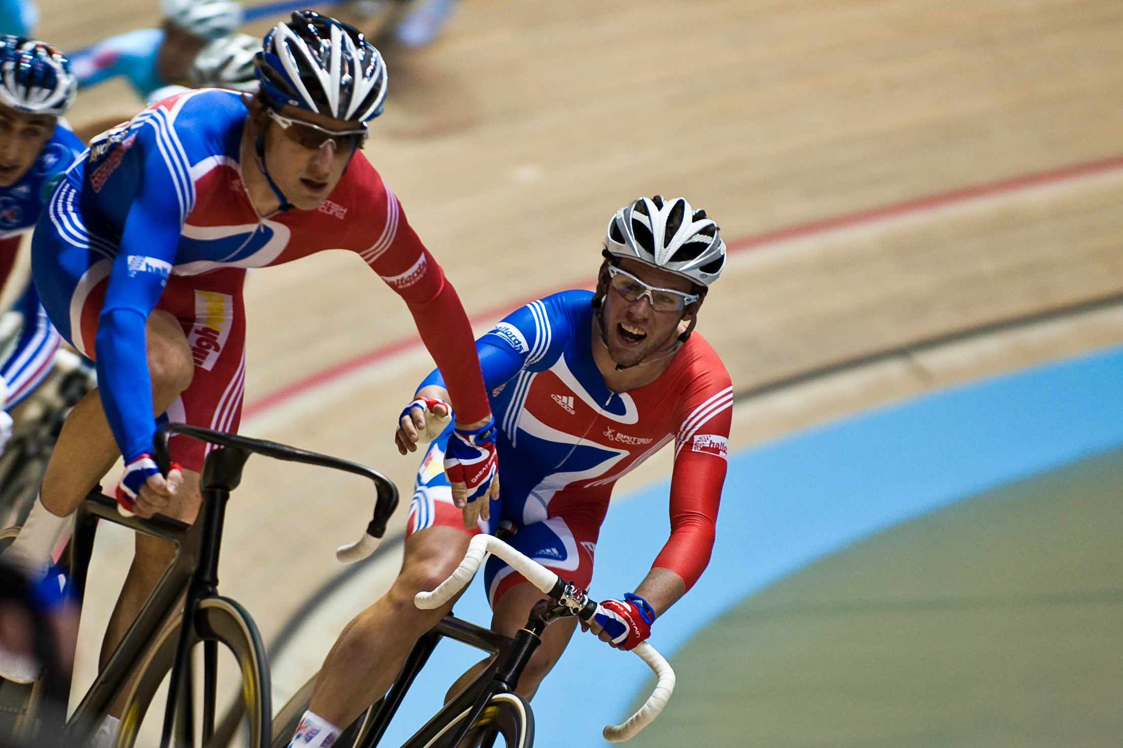 Bradley Wiggins (left) and Mark Cavendish (right) on their way to becoming world Madison champions 2008, Manchester Velodrome